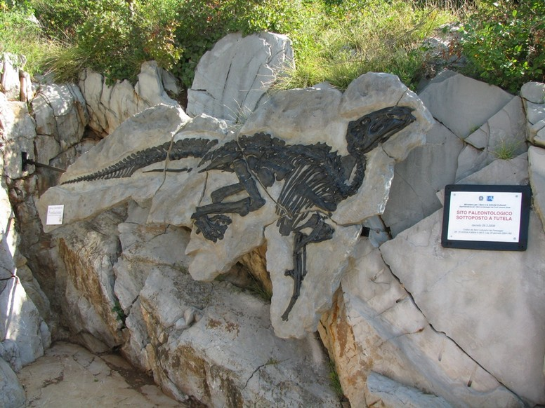 Reconstruction of a Tethyshadros insularis skeleton, nicknamed "Antonio", near his finding site.